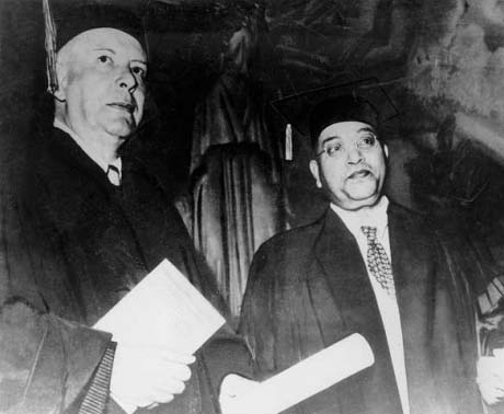 Dr. Babasaheb Ambedkar with Mr. Wallace Stevens at Columbia University, New York (USA), while receiving LL.D. (Doctorate of Laws) for being the 'Chief Architect of the Constitution of India'.